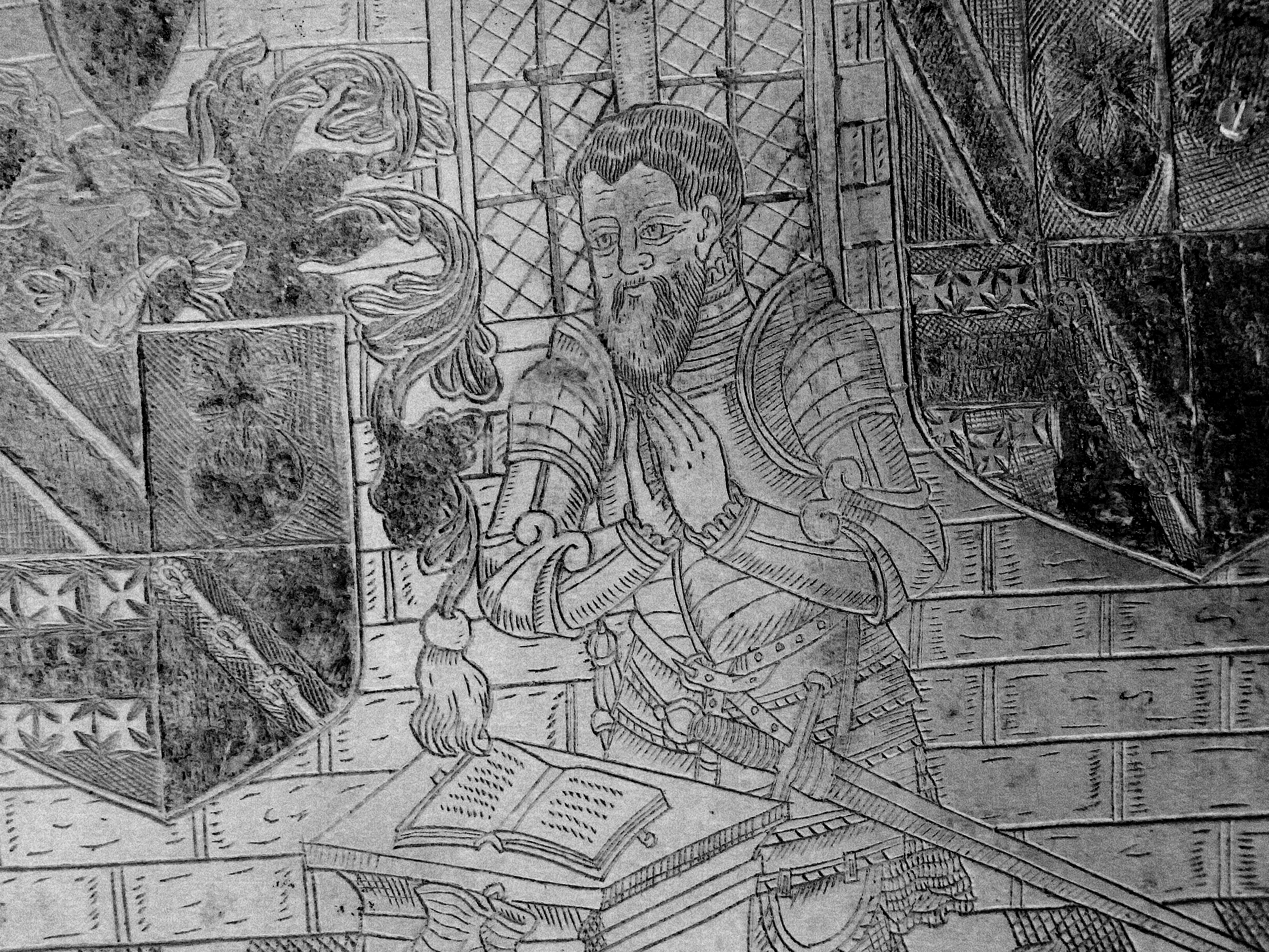 Monumental brass of Richard Fortescue (d.1570) in Filleigh Church, North Devon. He kneels towards the left. Another brass of matching design exists in the same church, showing his brother-in-law Sir Bernard Drake, who erected the monument to which both brasses were affixed, kneeling toward the right. The shield in front of Richard Fortescue shows the following quartered arms: 1: Fortescue; 2: Denzil; 3: de Filleigh ; 4: de Weare (or Trewin). See: File:RichardFortescueArms.png